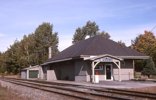 Claremont station in August 2001